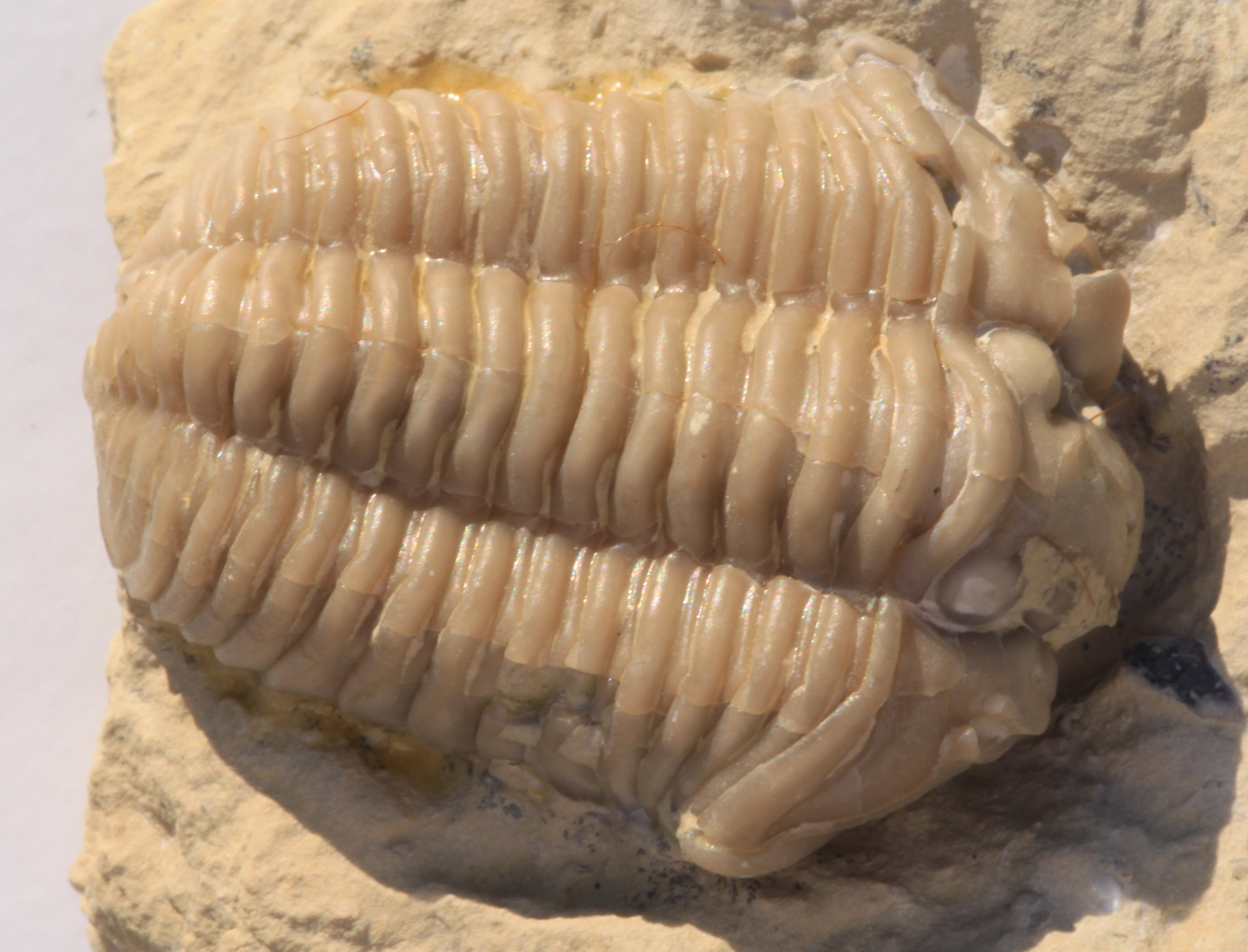 A Calymene clavicula trilobite, Order Phacopida, Family Calymenidae, 32mm along the axis, dorsal view, collected at the Henryhouse Formation near Ada, Oklahoma, USA, from the Silurian (Cayugan)(Ludlow+Pridoli)